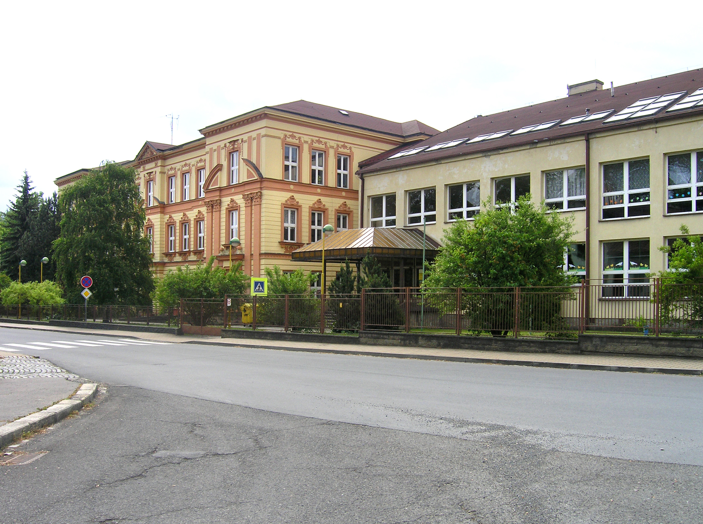 Elementary school in Fulnek, Czech Republic